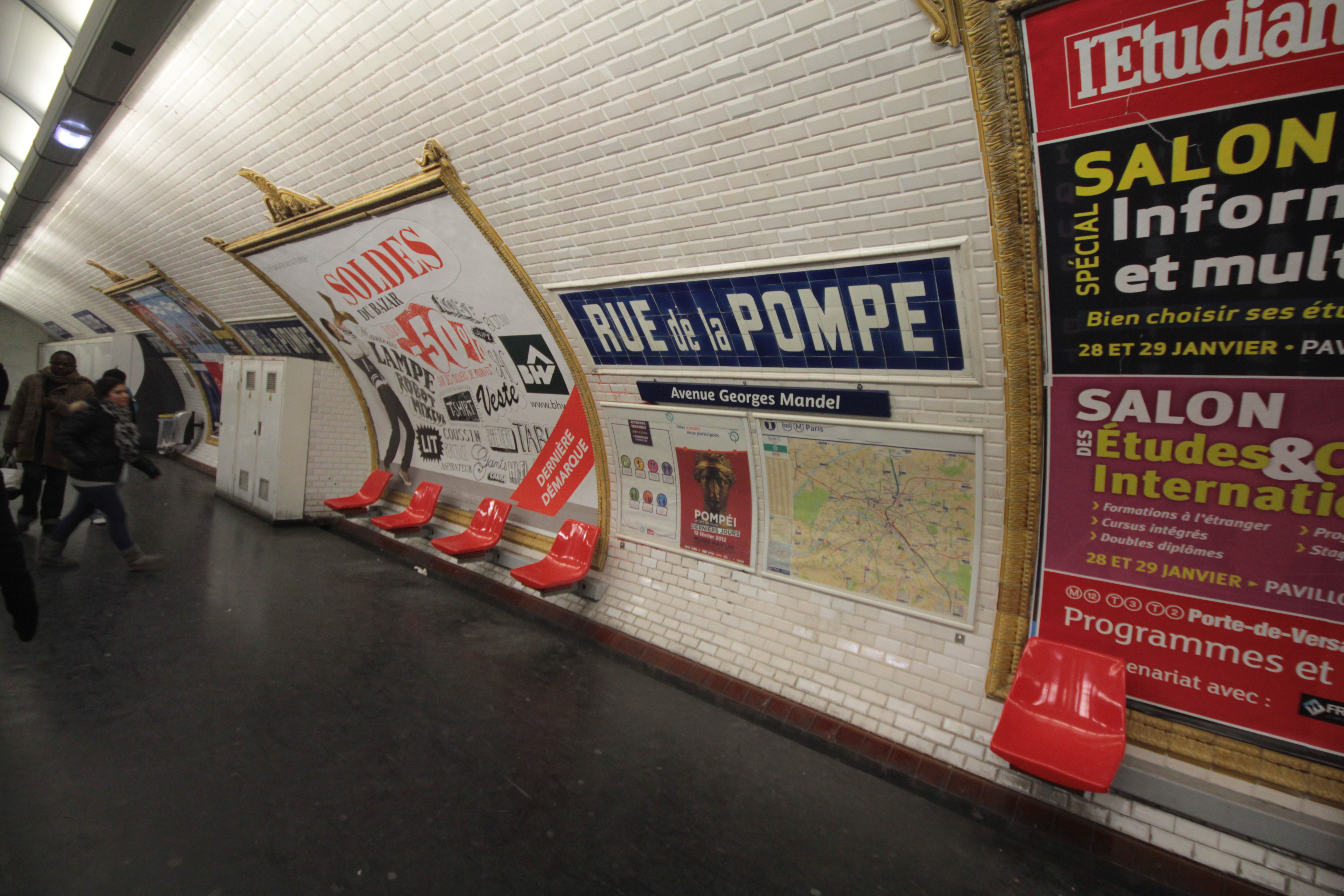 Metro station La Pompe on the Parisian metro